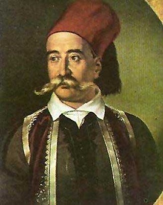 Petros Mauromichalis